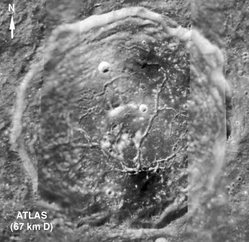 Moon crater Atlas. Photo from Clementine mission